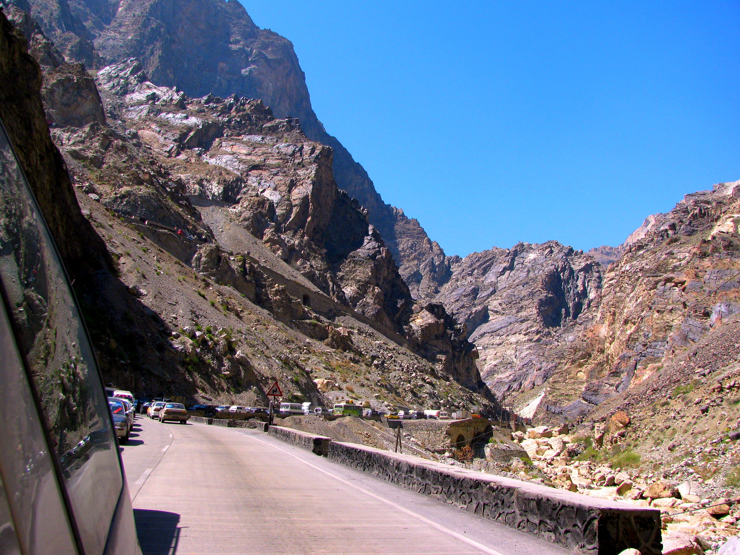 My mother is going to kill me for posting this. She told me not to drive this road. (Mom, this was done under the supervision of our security people, who know best) The road between Kabul and Jalalabad is beautiful. It's a long jagged pass with switchbacks, huge cliffs and tunnels. Can you see how the Soviets lost 15,000 troops trying to invade this country? This road used to be dirt... imagine trying to get a battalion through this thing... These hills weren't perfect cover... a million Afghans died in the fighting. Driving the Soviets out came at a huge price. Driving this road really brought home some of the best advice you can get... never get involved in a land war in Asia. (or go in against a Sicilian when death is on the line).